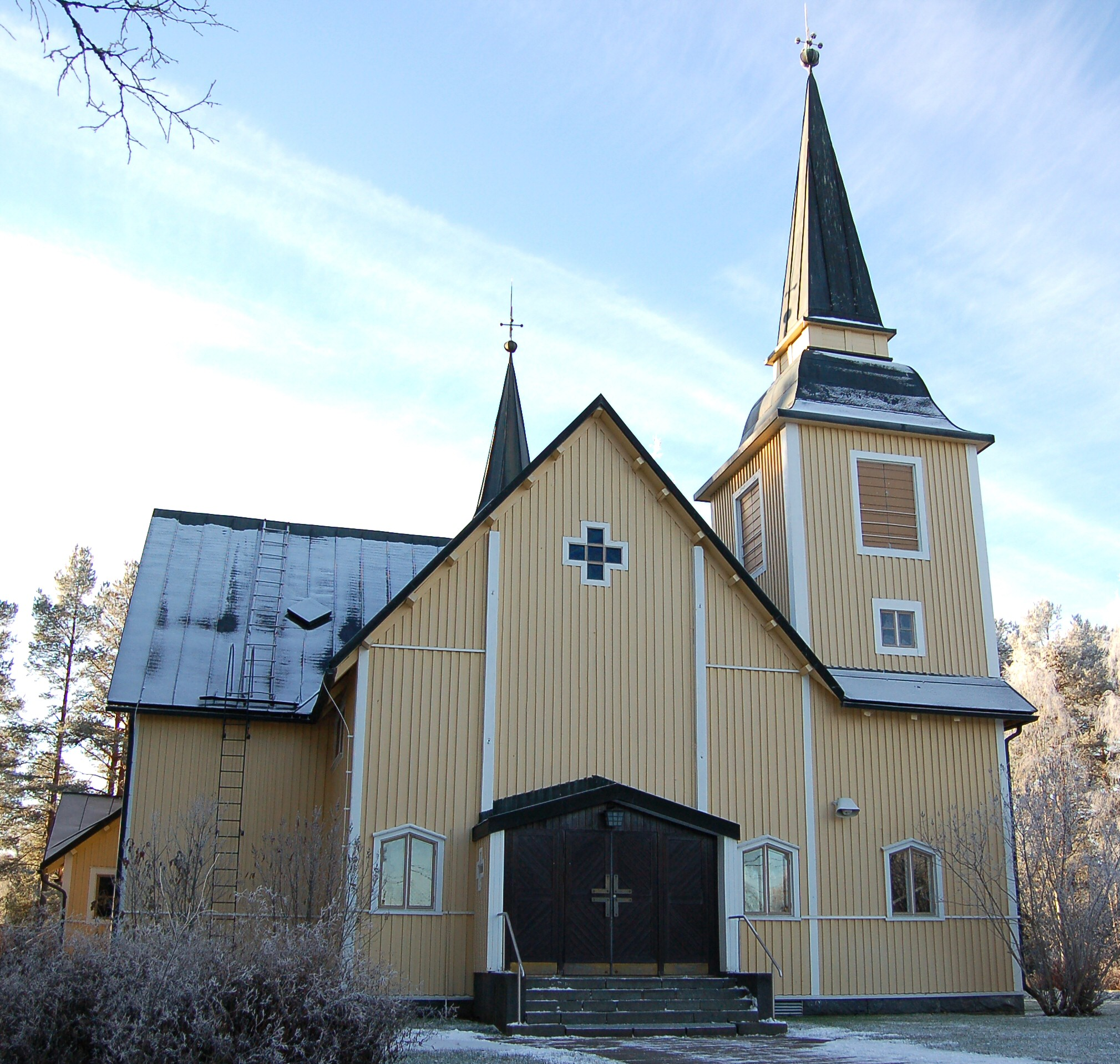 Church of Ranua parish, Finland